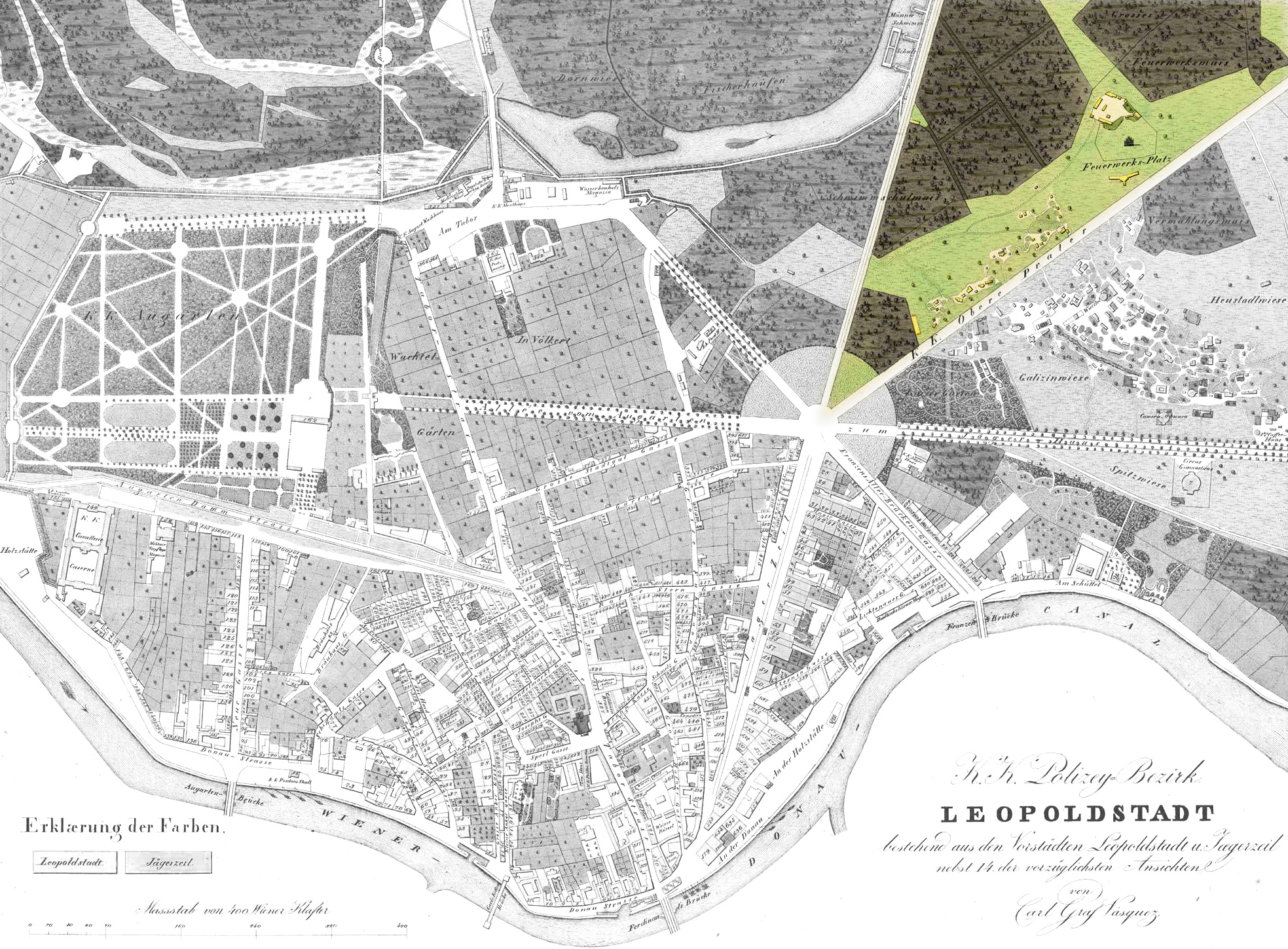 Map of Vienna / Stuwerviertel, approx. 1830